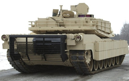 Rear of Abrams with tusk upgrade